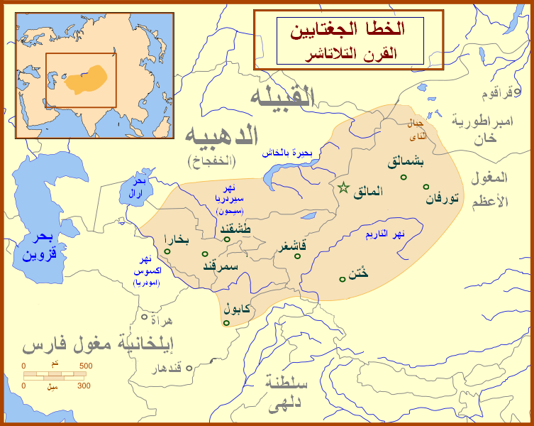 A A map of the Chagatai Khanate in the late 13th century. The grey lines represent modern international borders. The blue represent rivers. This map uses a Lambert azimuthal equal-area projection.